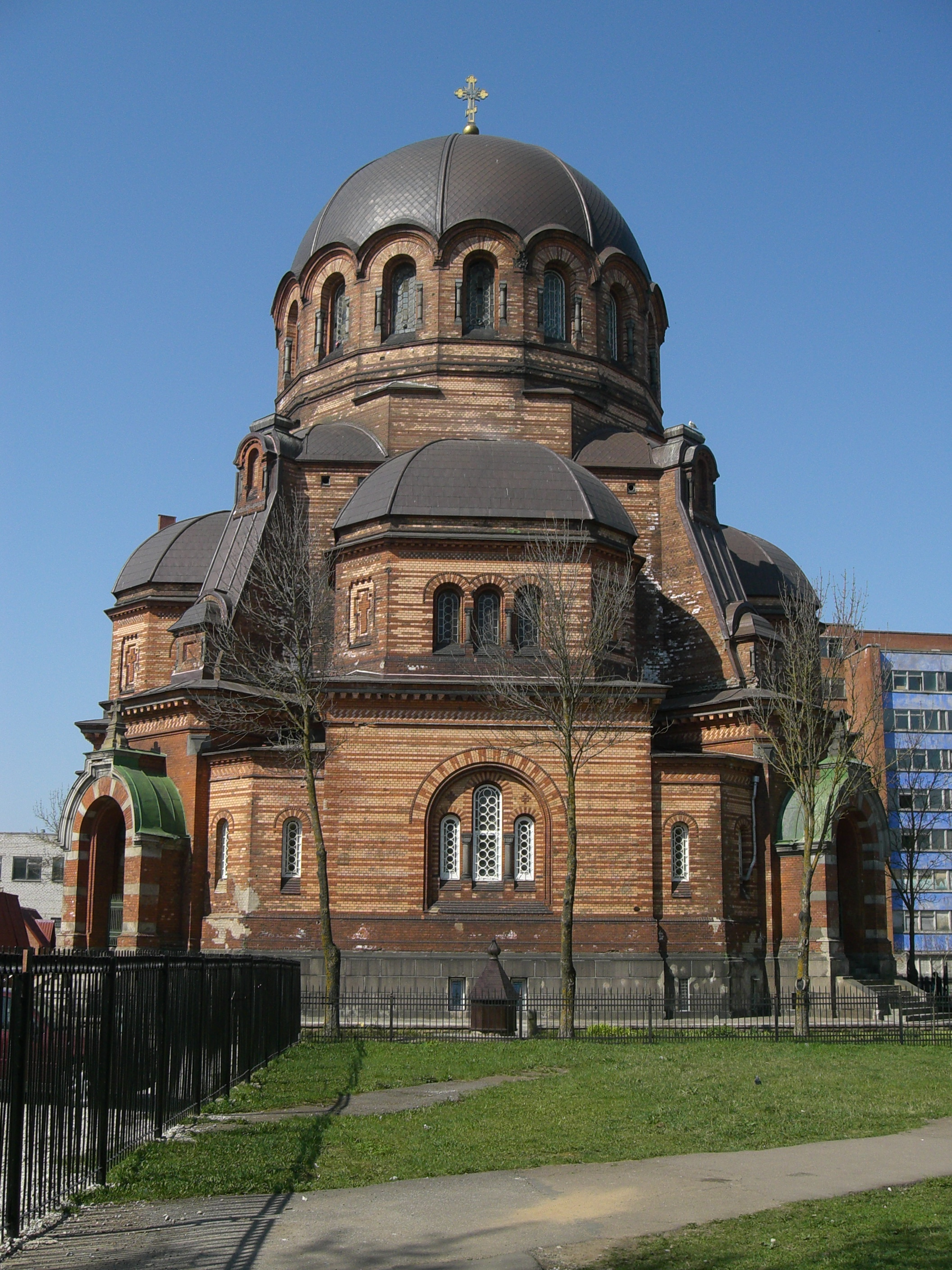 Church .Narva town, Estonia.